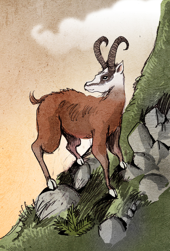 Illustration of a dahu by Philippe Semeria.